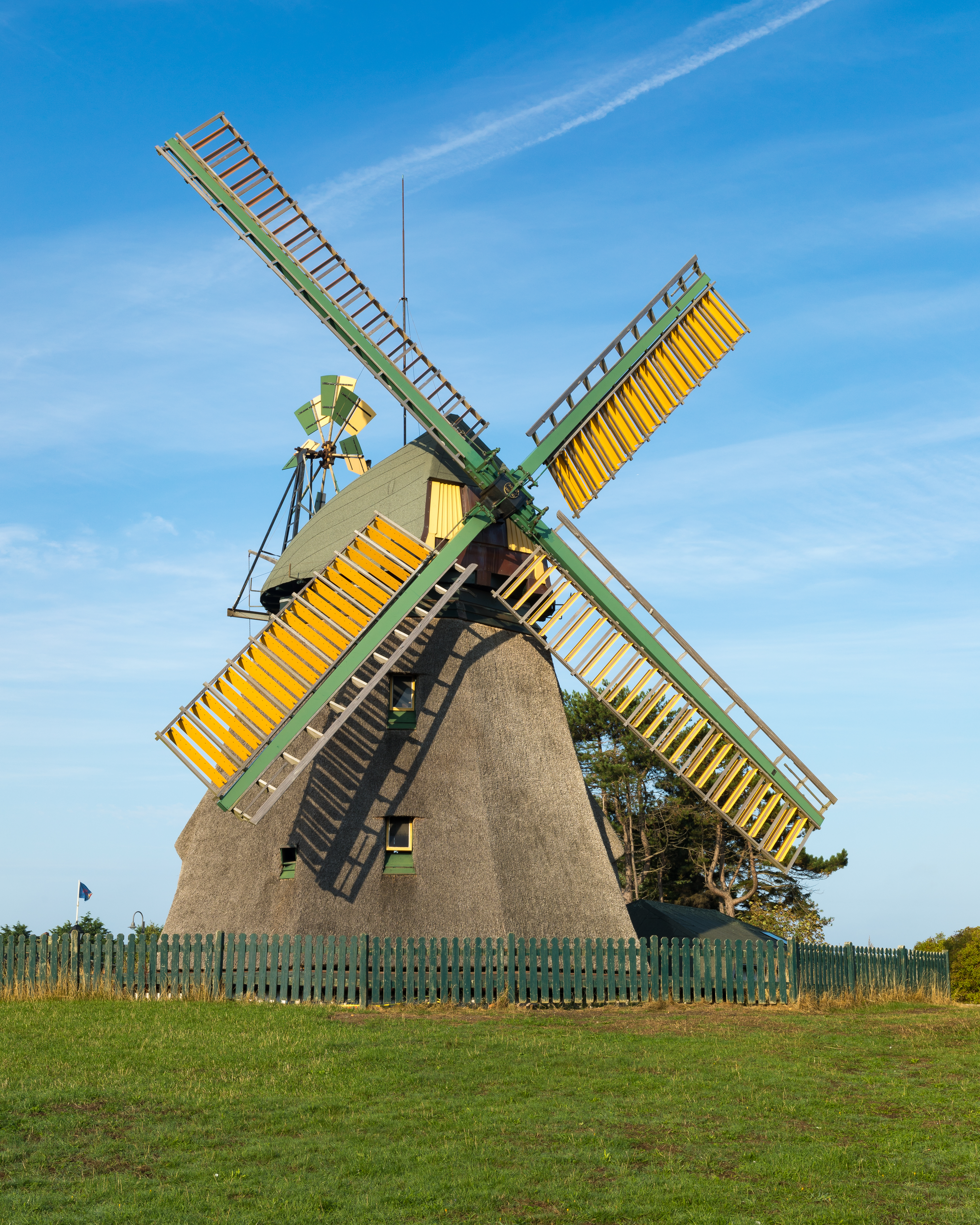 Amrum windmill near Nebel, historic building and landmark of the North Frisian Island of Amrum